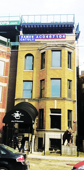 EAMUS CATULI! Sign Above LBC